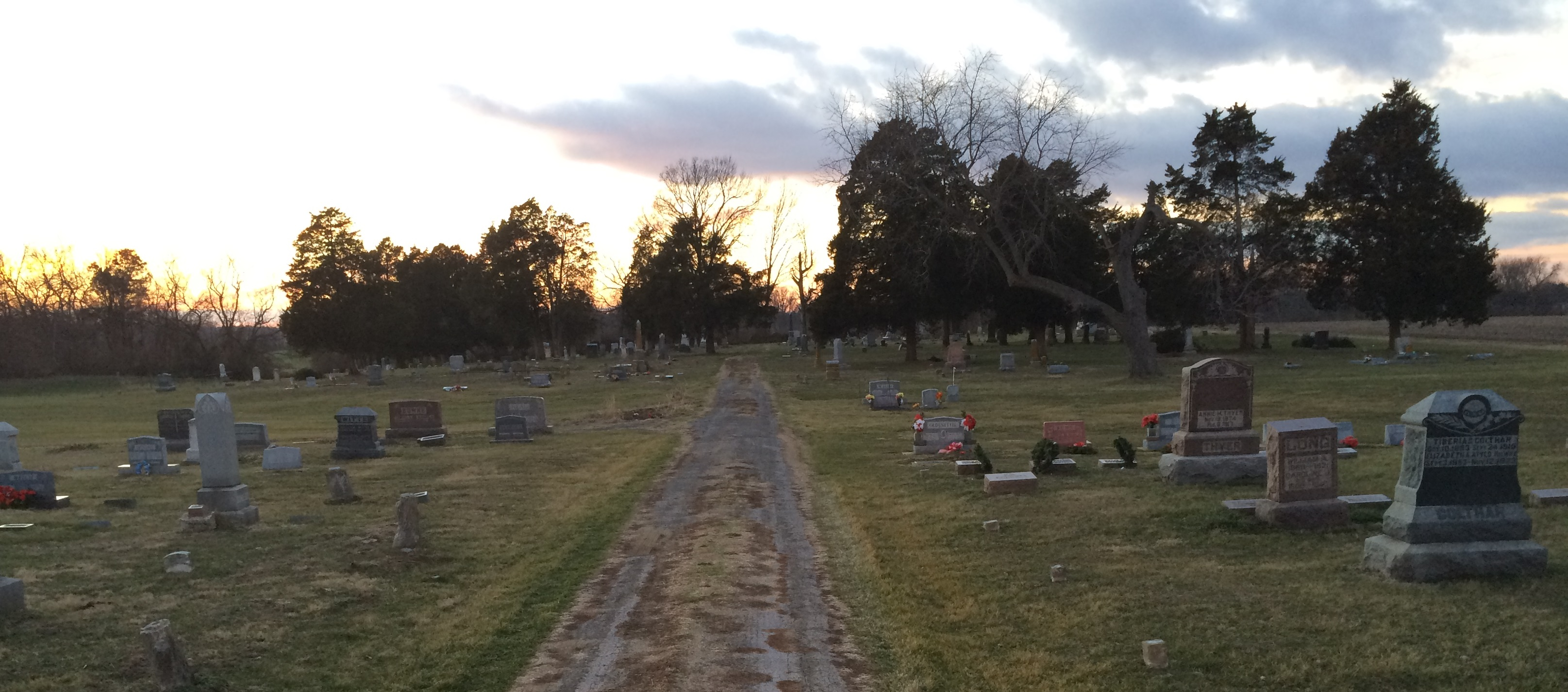 Woodburn Cemetery in Woodburn, Illinois - looking west